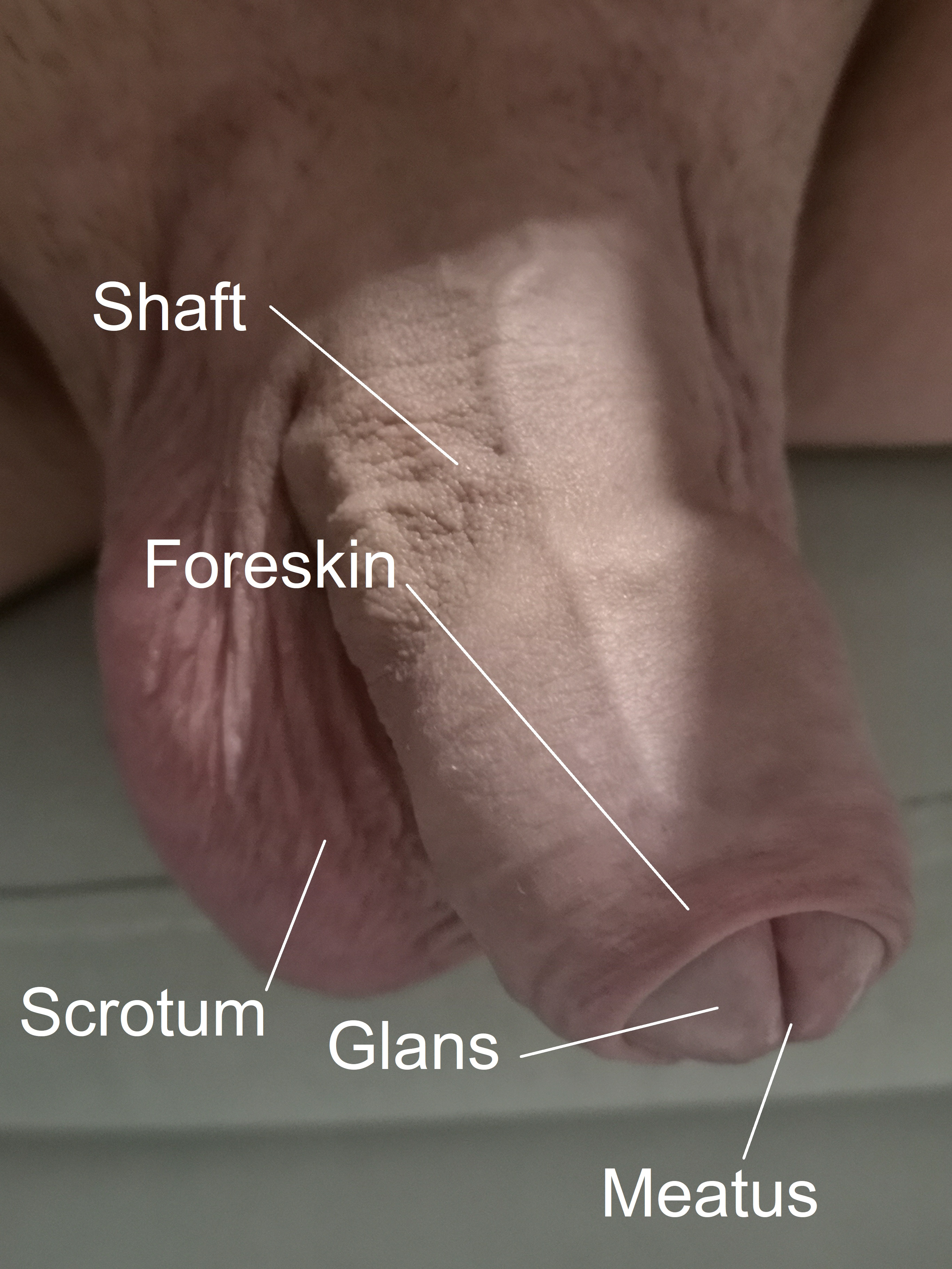 Flaccid human penis with description